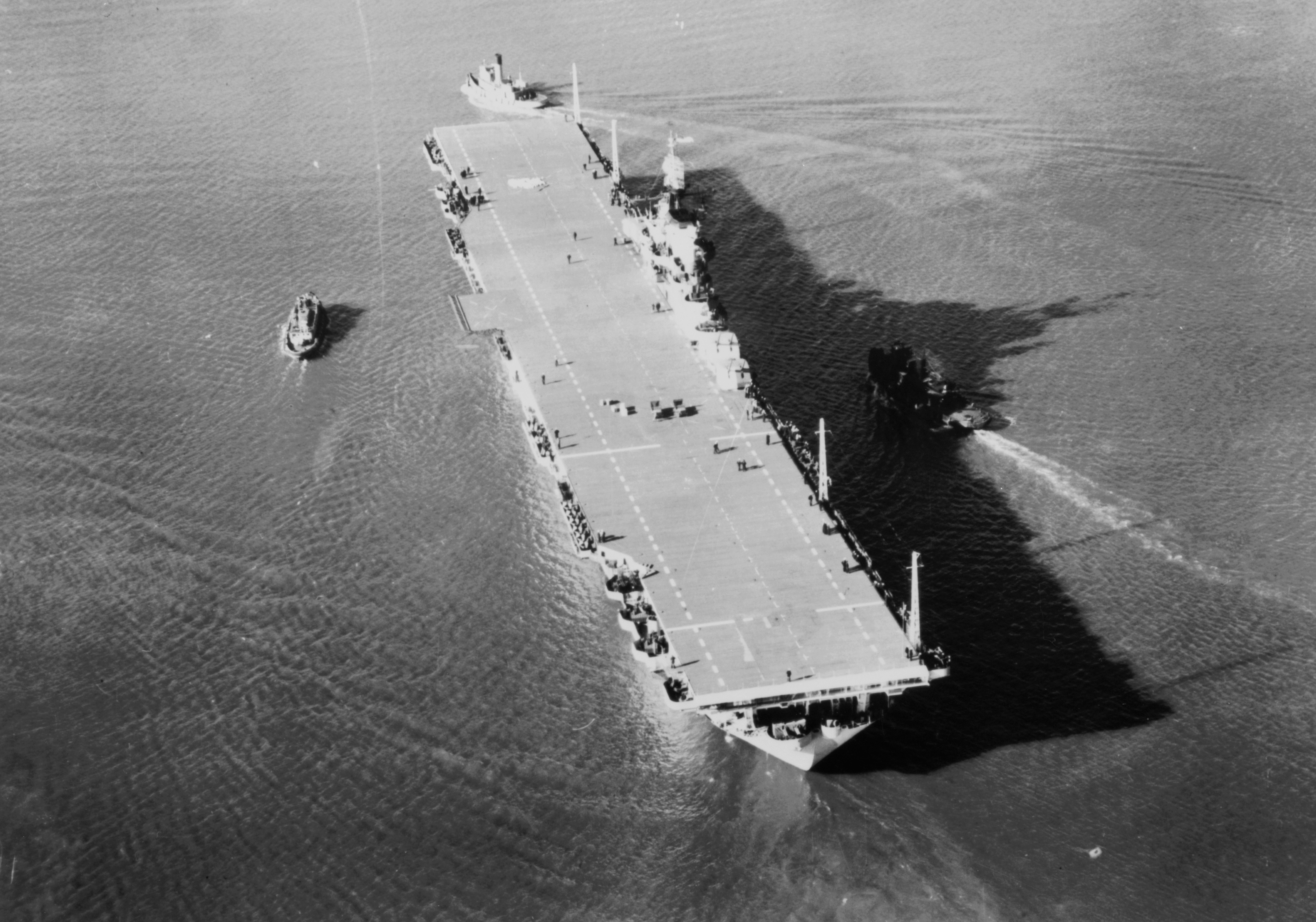 The U.S. Navy aircraft carrier USS Hornet (CV-12) at Norfolk, Virginia (USA). Hornet was the first carrier that received a dazzle pattern camouflage (barely visible), in this case camouflage Measure 33, Design 3a.